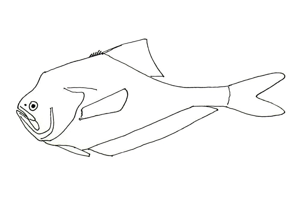 Kurtus sp.